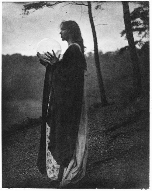 The Bubble